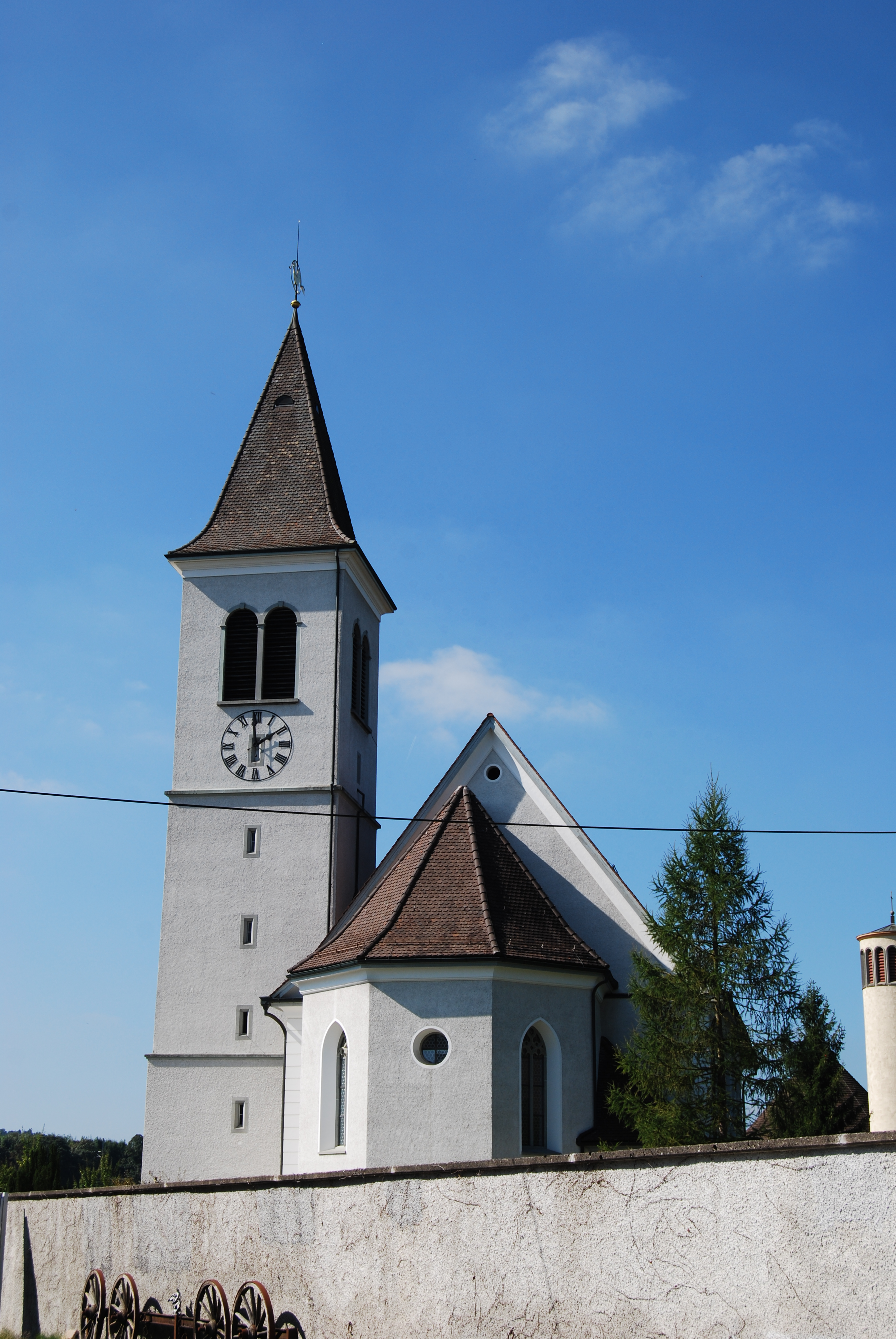 Protestant St. Gallus church at Bussnang (KGS n. 10940), canton of Thurgovia, Switzerland